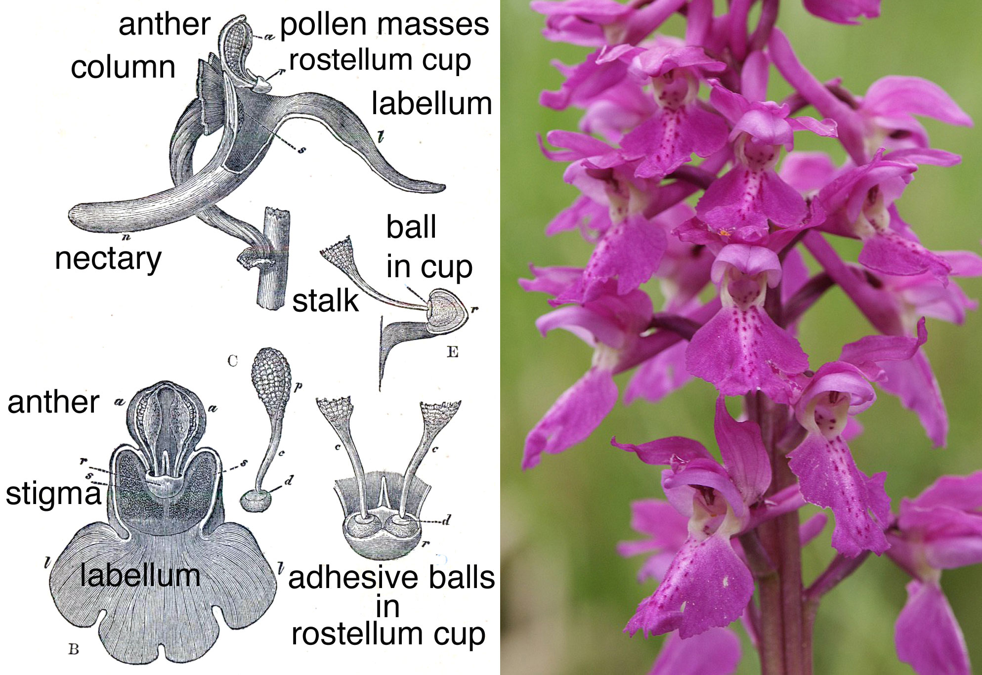 Figure 1 from the 1877 edition of Charles Darwin's Fertilisation of Orchids. Scanned from a copy of the work at the University of Massachusetts Amherst.